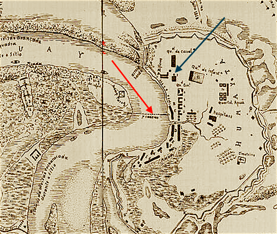 Plan of fortress of Humaitá, detail.